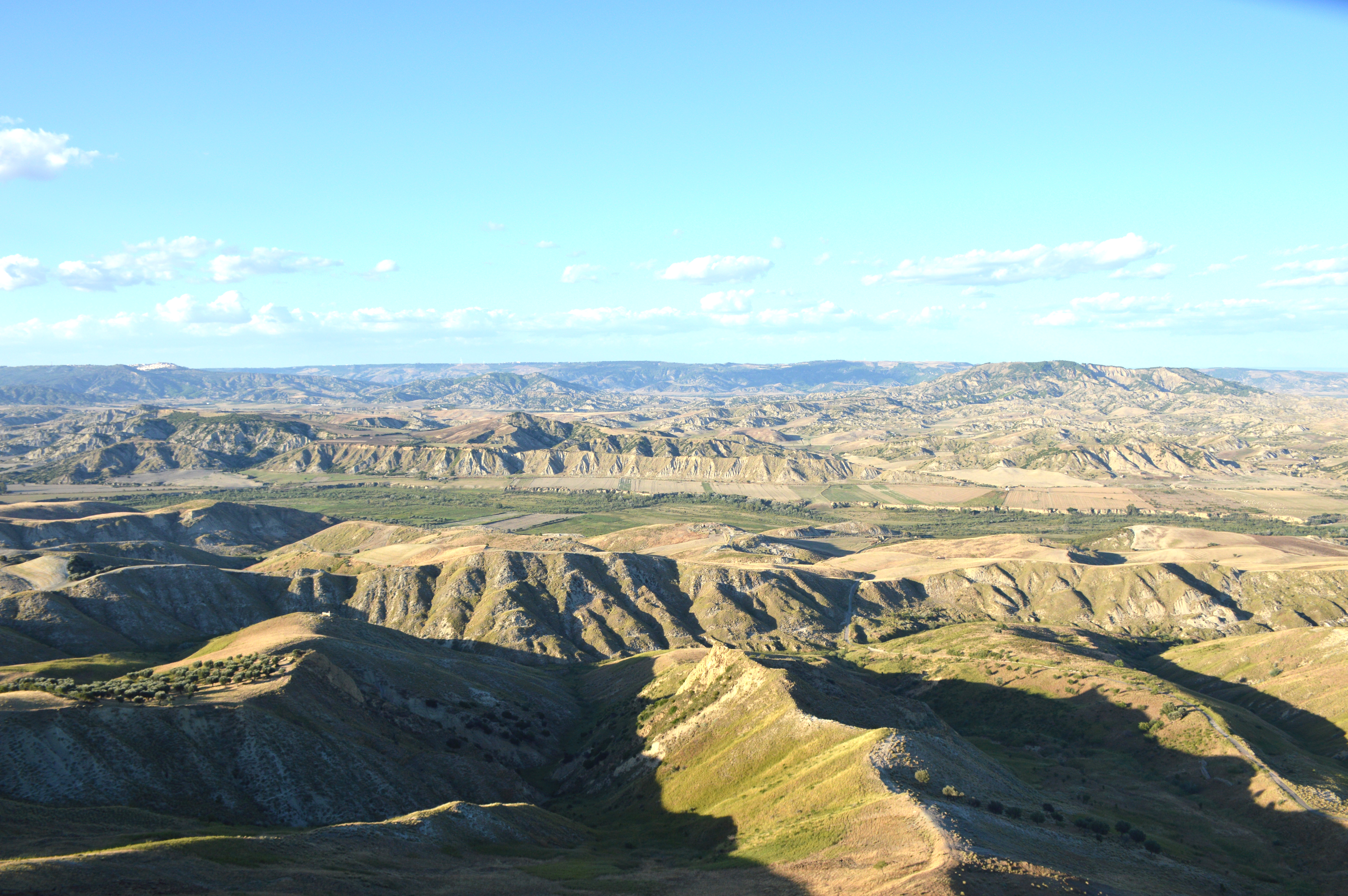 Basilicata . Landscape near Craco, Matera